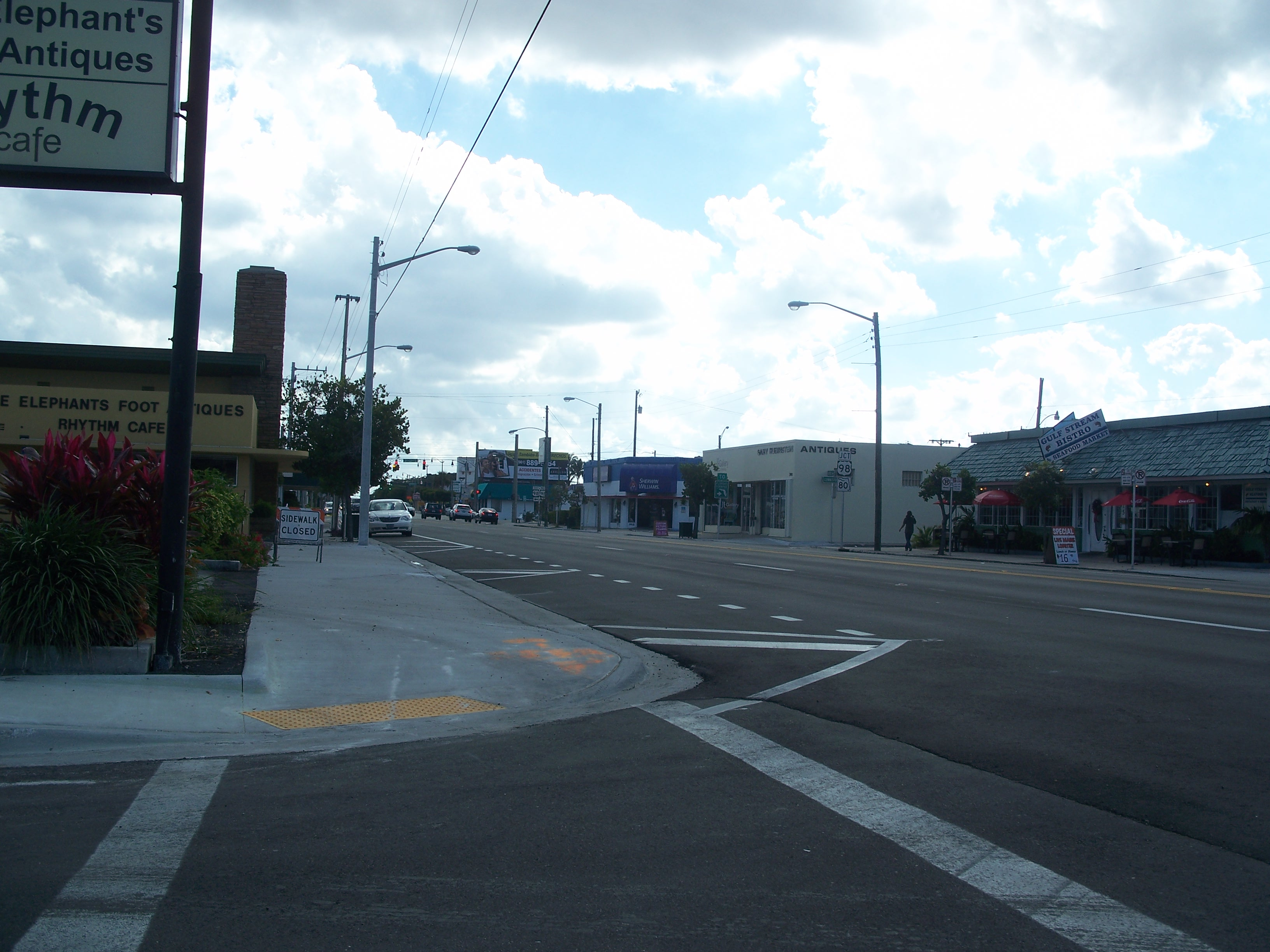 West Palm Beach, Florida: Central Park Historic District: US 1/State Road 805, looking south